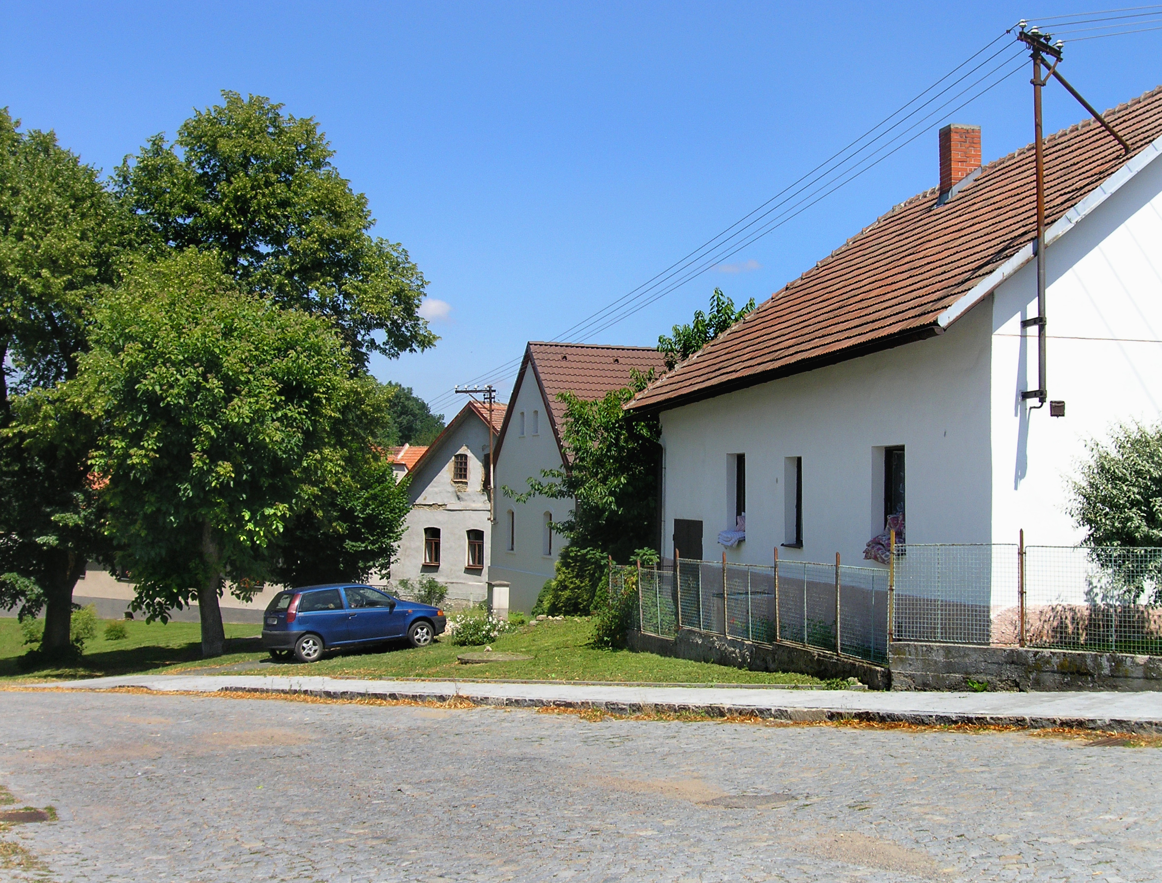 Common in Bousov, Czech Republic